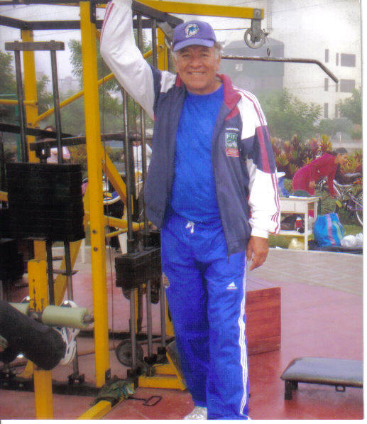 Peruvian football player Fernando Cuellar